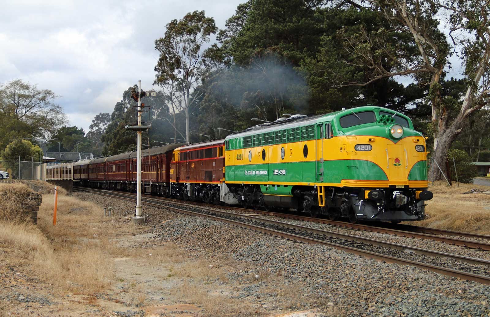 4201 and 4490 at Mittagong with 4201's return to service special train after its 2017 restoration. 16 September 2017.